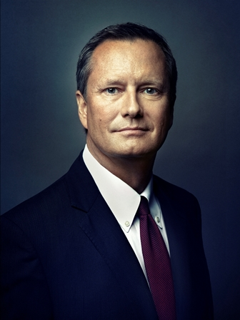 Photo of Michael R. Burns, taken in 2014